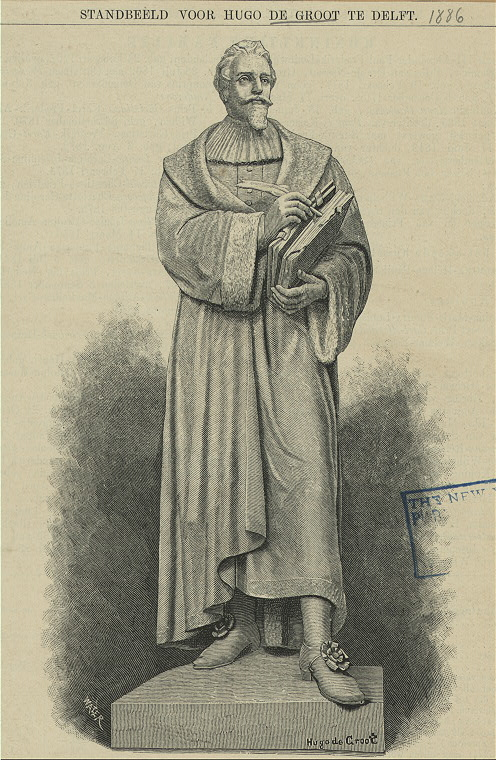 Statue of Hugo de Groot, known as Grotius